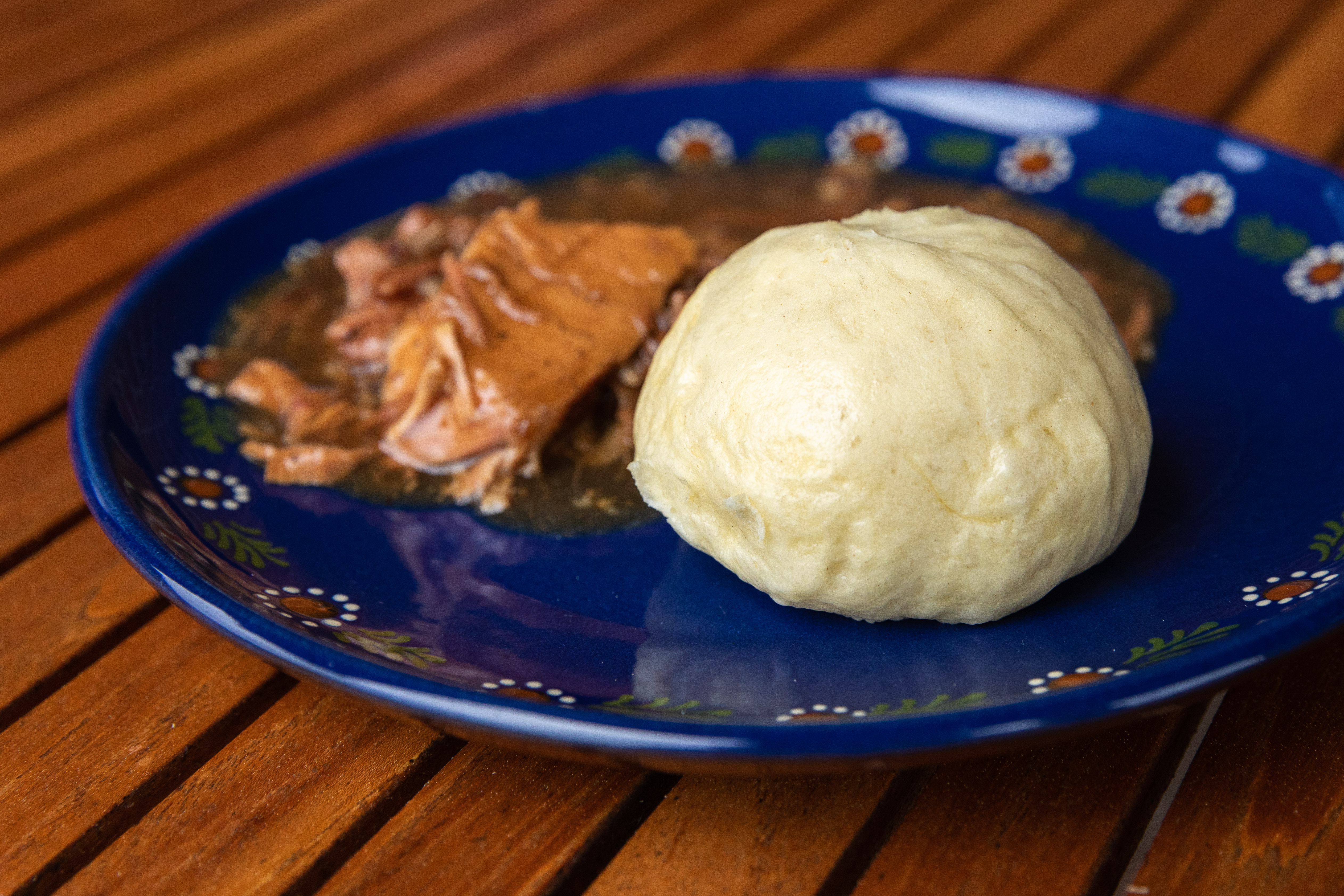 German dish Hefekloß mit Rippchen prepared by Cornelia Meyer. With friendly support by Achim Meyer, Ulrike Rüger & Matthias Rüger. Stadensen, Lower Saxony.